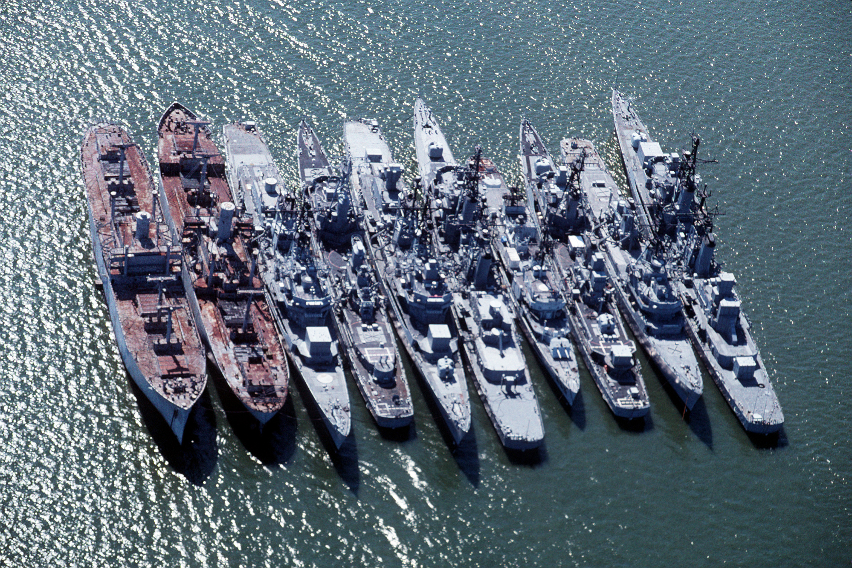 An aerial view of unit 6E of the U.S. Navy James River Reserve Fleet on 5 October 1993. It included two transport ships (left), three Charles F. Adams-class and four Farragut-class guided missile destroyers and the Gearing class destroyer USS William C. Lawe (DD-763), fourth from the right. Lawe was later sunk as a target on 14 July 1999. The other destroyers were sold for scrap.